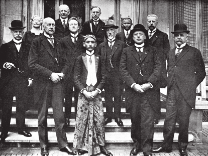 Leadership of the third Koloniaal Onderwijscongres